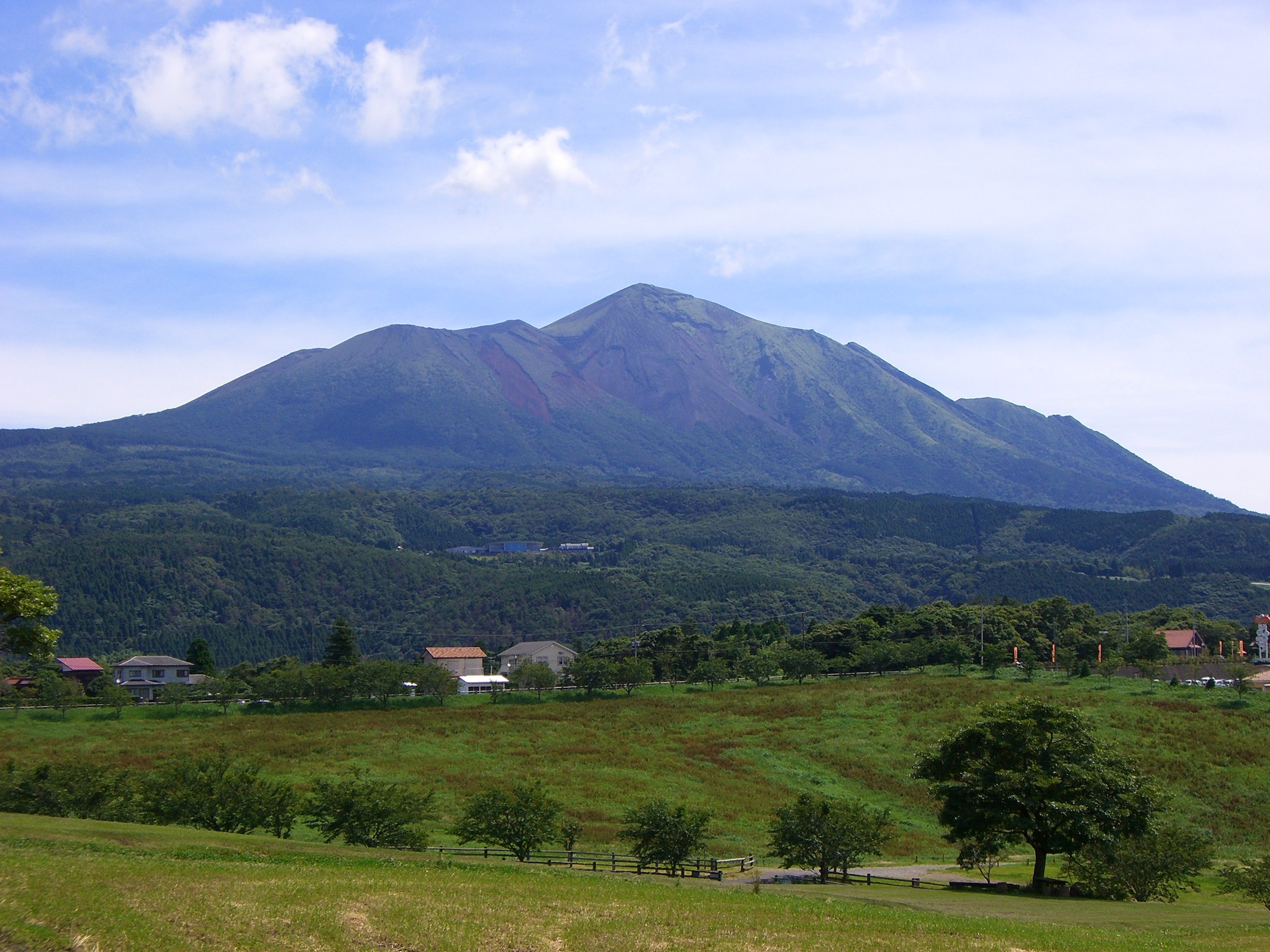 Mt. Takachihonomine rises between Kagoshima and Miyazaki, Japan.